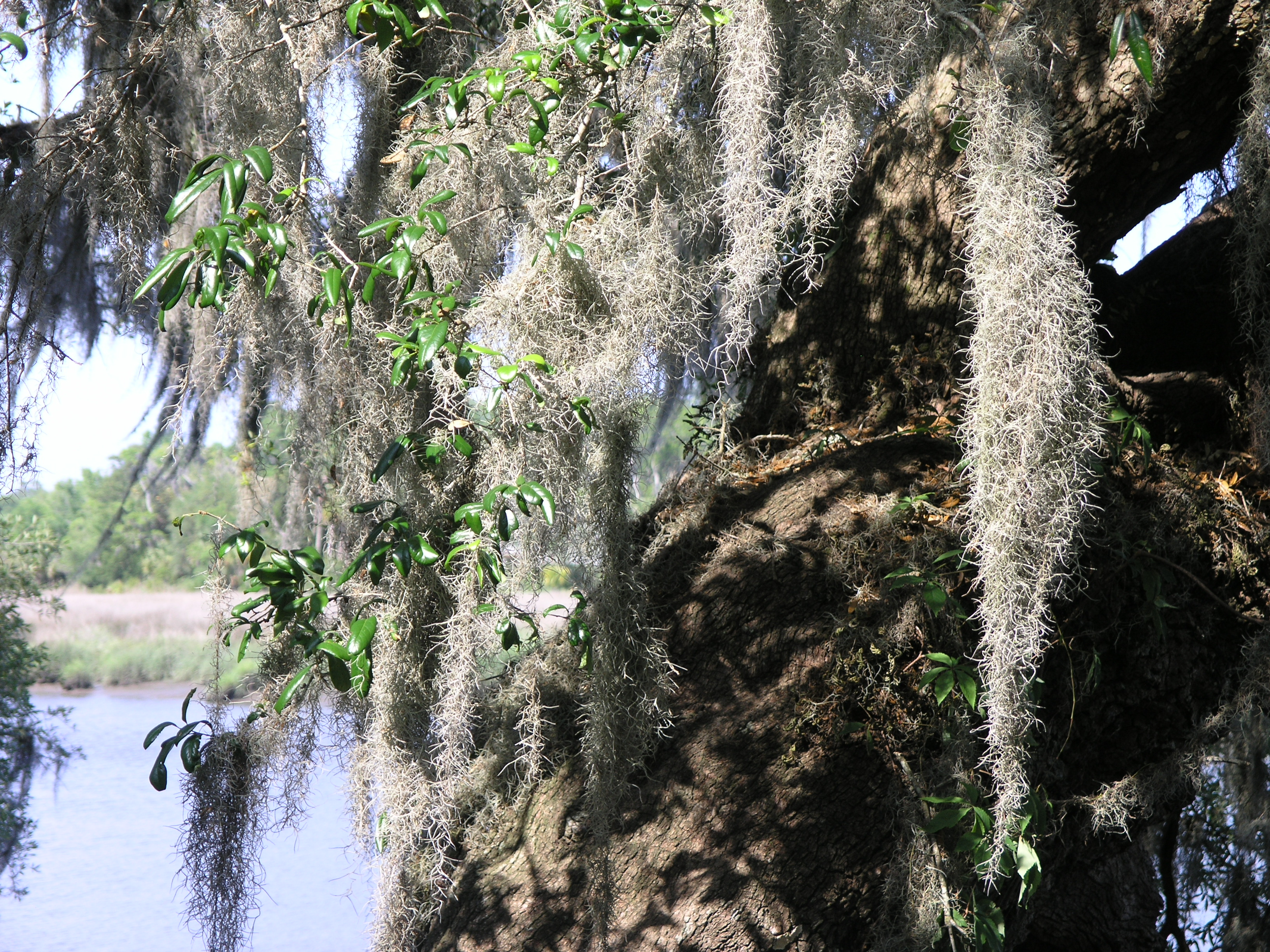 Photo in or around Charleston, South Carolina